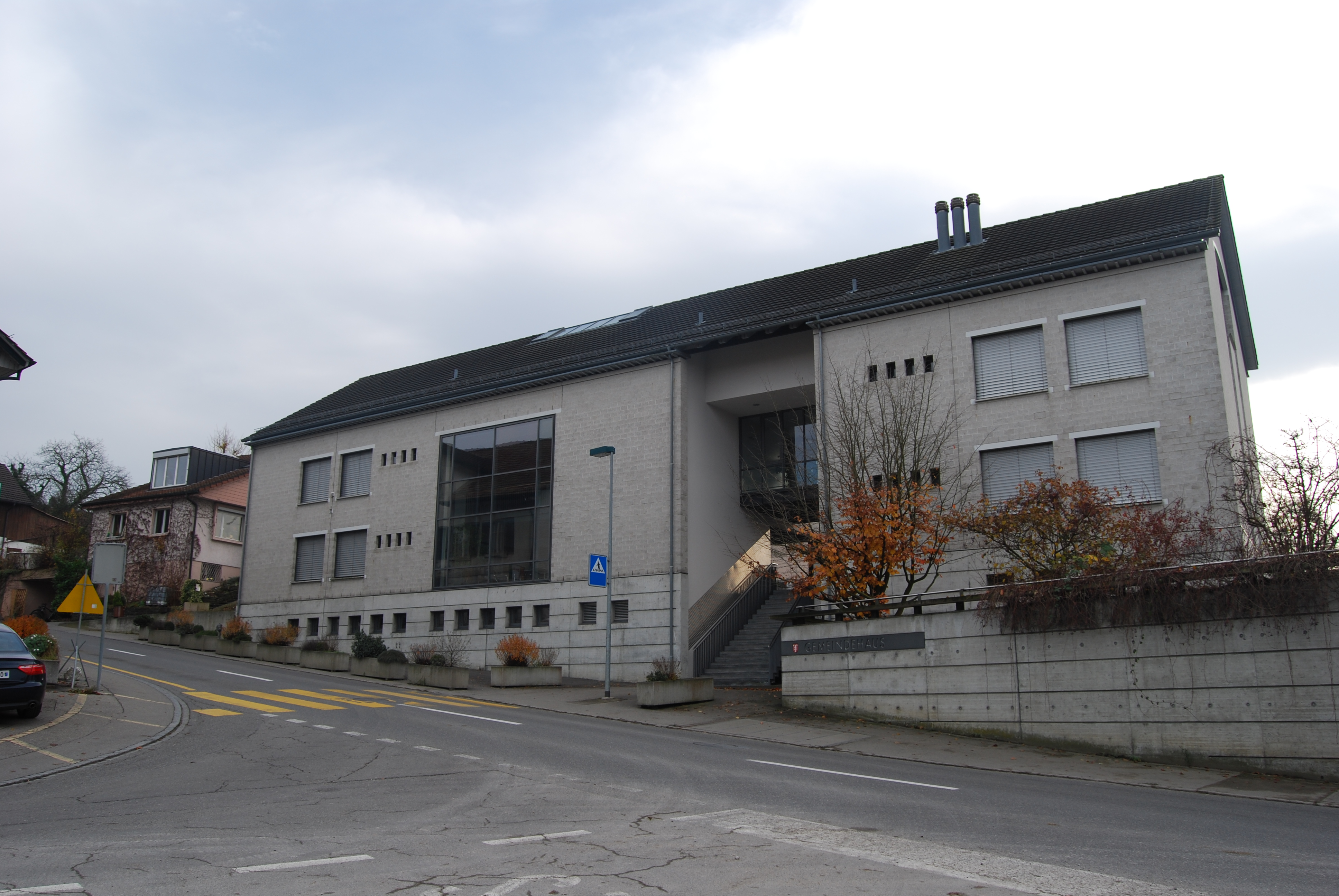 Municipality of Stetten, canton of Aargau, SwitzerlandEsperanto: Komunuma domo de Stetten, Kantono Argovio, Svislando